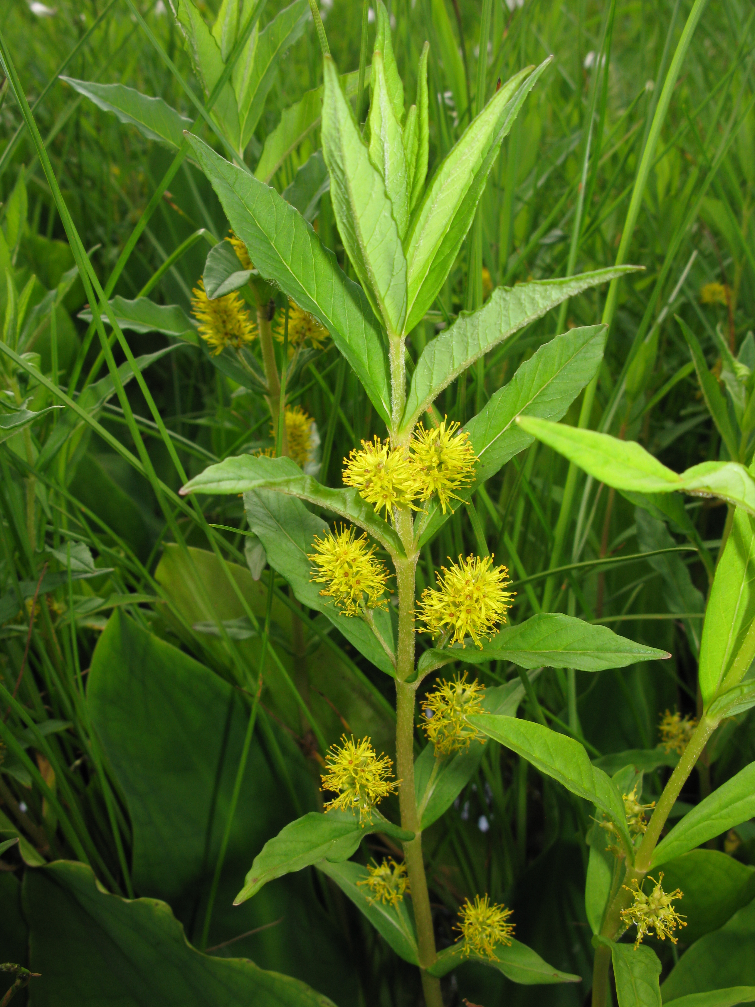 Lysimachia thyrsiflora, Oze, Gunma pref., Japan